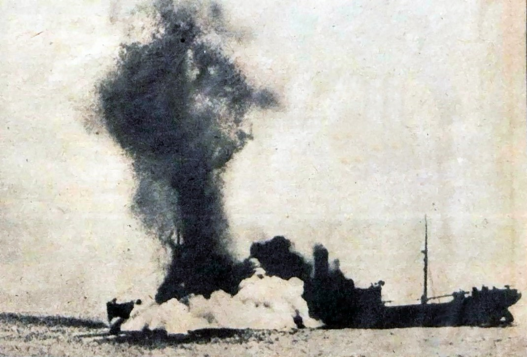 Sinking of the British ship Kemmendine, 1940